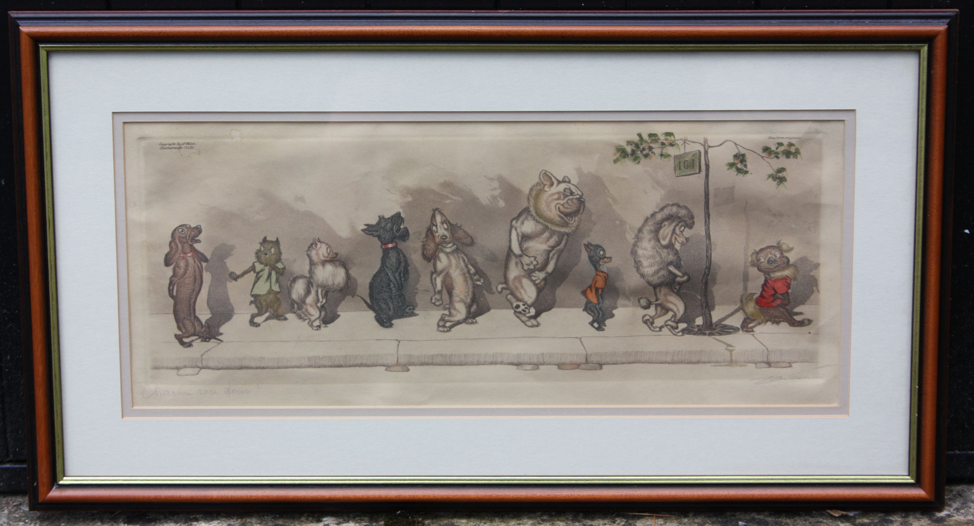 'Chacun son tour' (Wait your turn); original hand-coloured etching by Boris O'Klein from his series Dirty Dogs of Paris